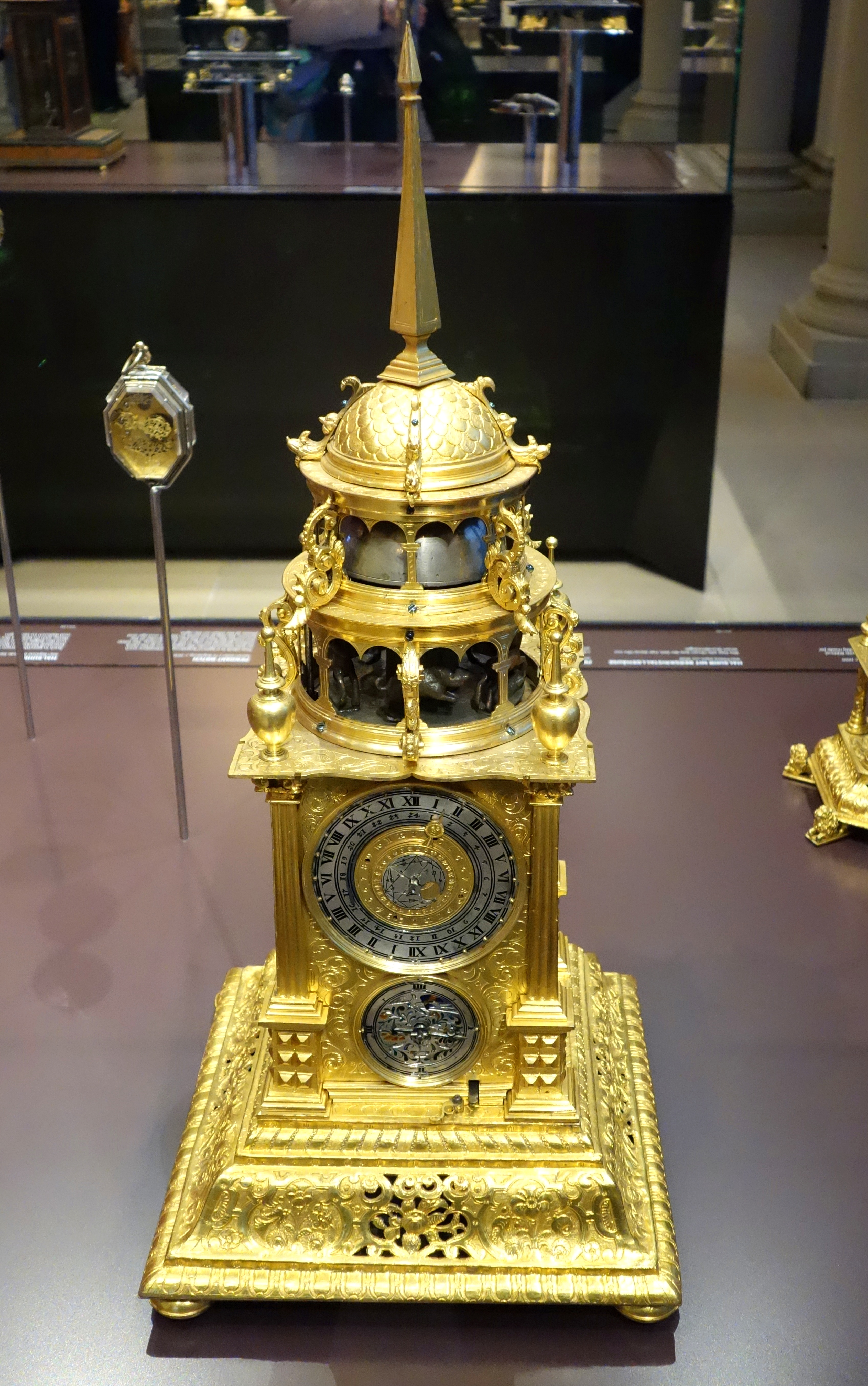 Exhibit in the Mathematisch-Physikalischer Salon (Zwinger), Dresden, Germany. This artwork is old enough so that it is in the public domain.